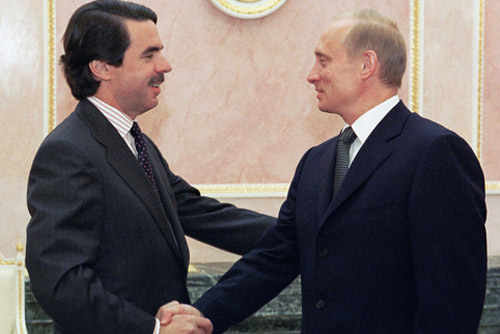 THE KREMLIN, MOSCOW. President Putin with Spanish Prime Minister and current President of the European Union Jose Maria Aznar before the start of the Russia-EU Summit.